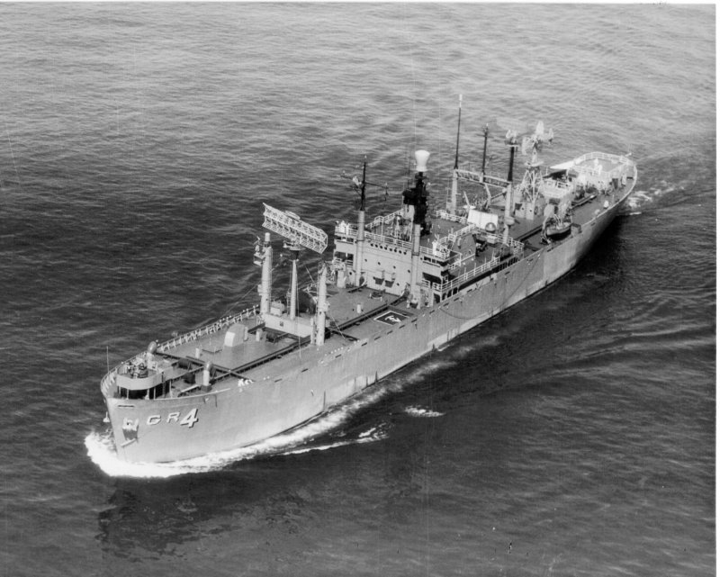 USS Searcher (AGR-4) underway, 9 September 1960, location unknown. US Navy photo.